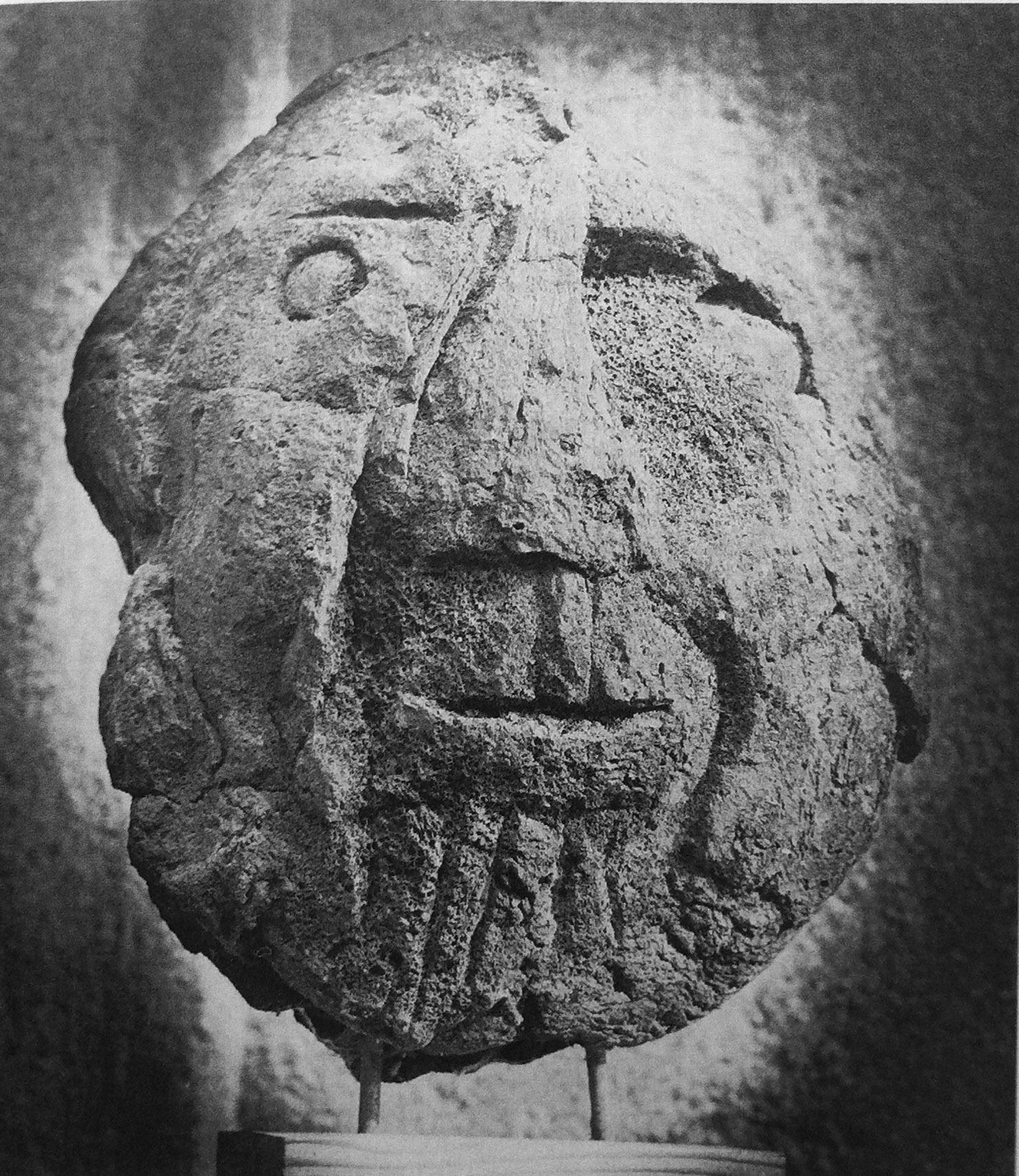 An atypical piece of art by the Norwegian painter Lars Tiller. Lava stone.